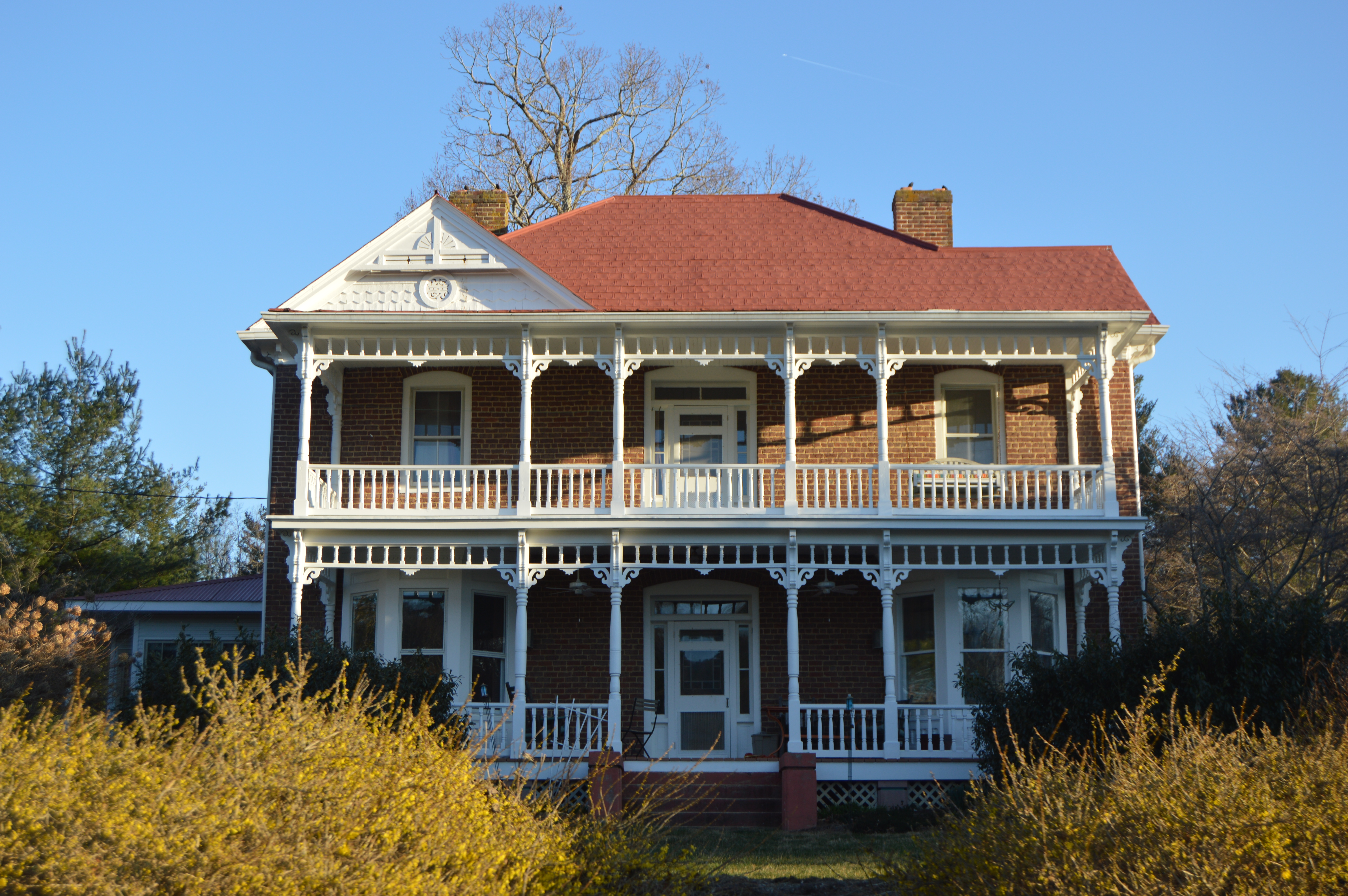 Front of the Oakdale Farmhouse, located at 5773 Franklin Pike northeast of Floyd in Floyd County, Virginia, United States. Built in 1890, it is listed on the National Register of Historic Places.